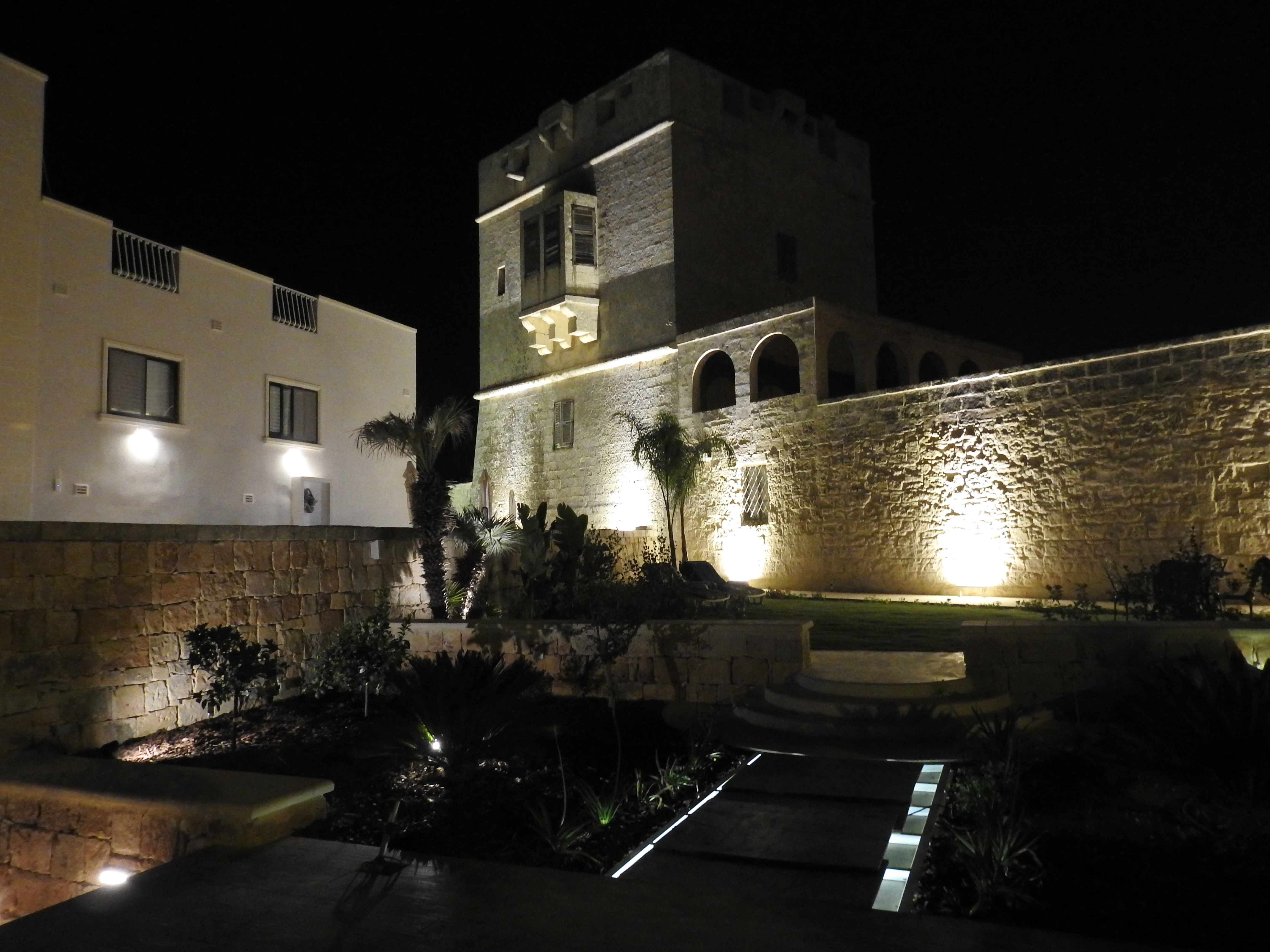 Captain’s Tower built c. 1550s This media is about Maltese cultural property with inventory number 01431.